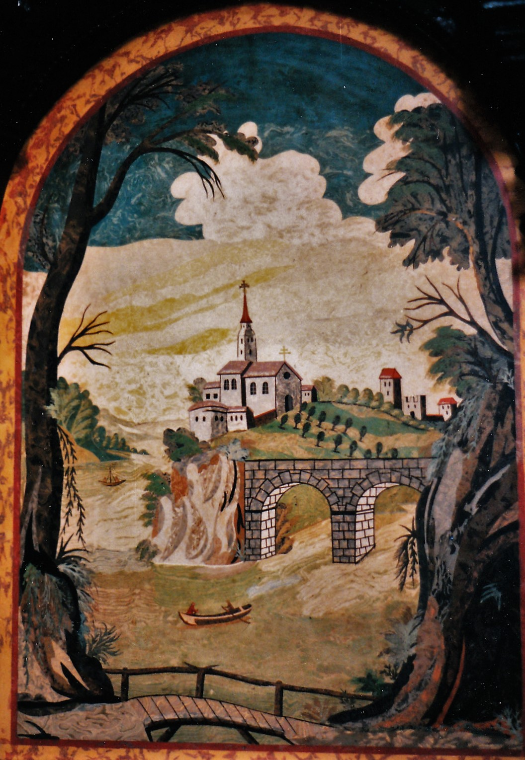 Kempten (Allgäu), St. Lorenz Basilica: Choir stalls with plate by the stuccoer Barbara Fistulator alias Barbara Hackl (1669–1670) ("Scagliola technique")